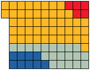 composition of Cornwall County Council following the 2005 elections: "#fcb825" (yellow) LibDem "#b0c6b3" (greyish) independents "#2061a2" (blue) Conservatives "#ee1a2c" (red) Labour